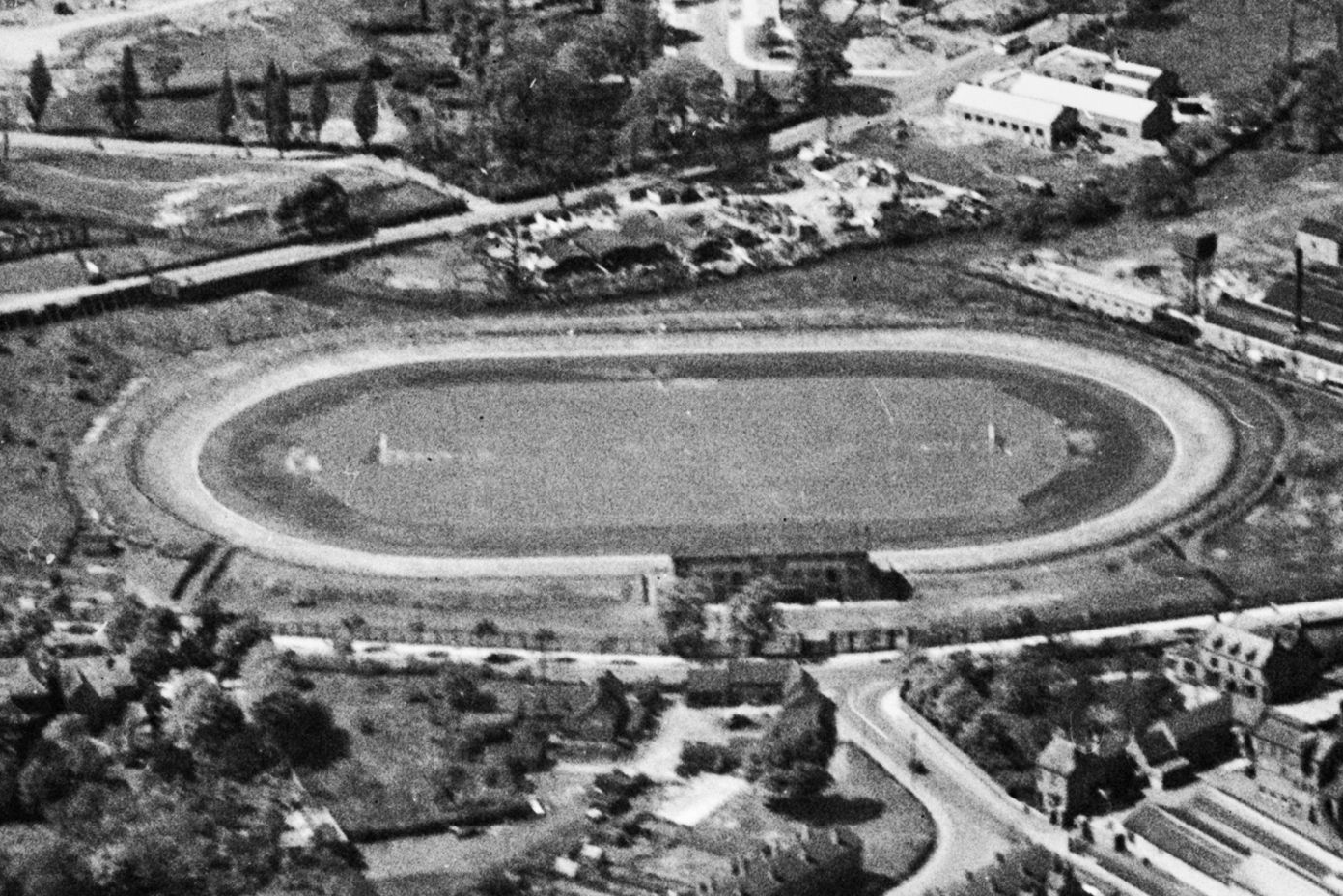 Perry Barr Stadium, Perry Barr, Birmingham, England, and the surrounding residential area, looking approximately north-west. The camera is very approximately over the Aston Lane/ Witton Lane junction.